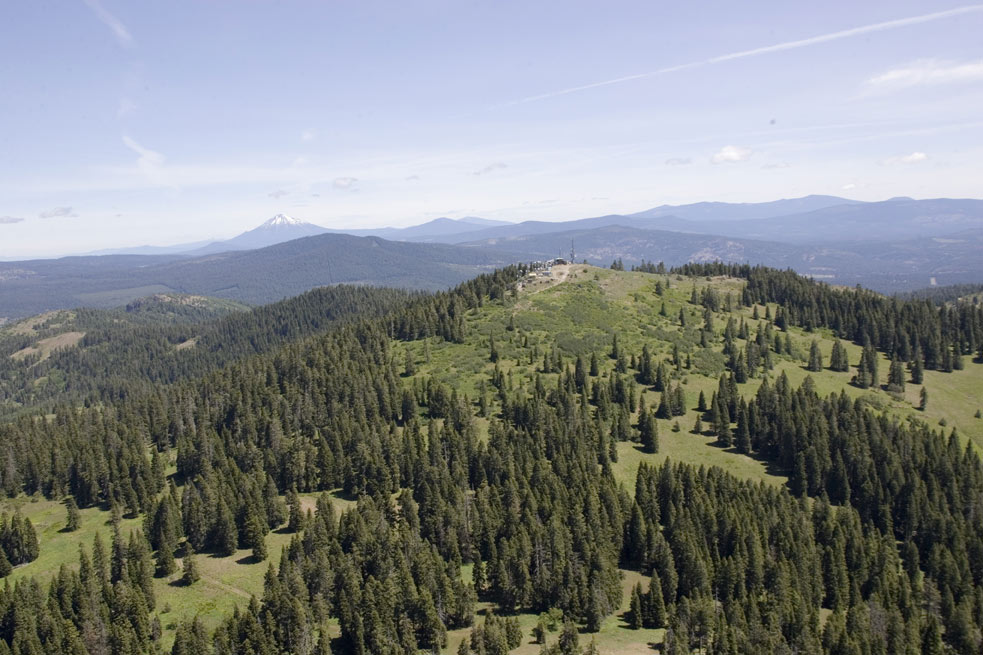 Soda Mountain, Oregon, USA. The mountain is the center of the Soda Mountain Wilderness inside Cascade-Siskiyou National Monument. In the background: Mount McLoughlin